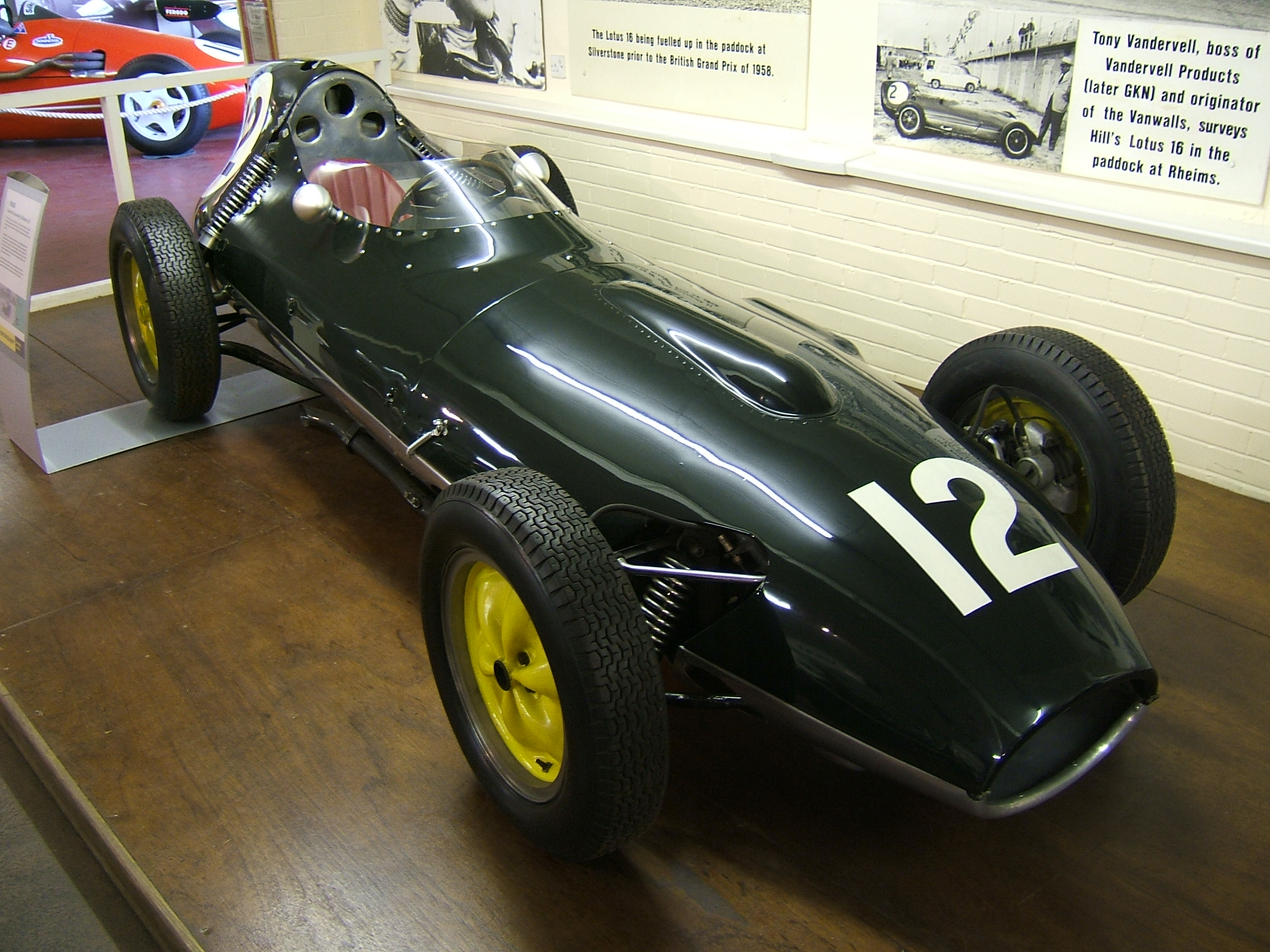 A Lotus 16 Formula One car. At the Donington Collection museum, Leicestershire, UK.